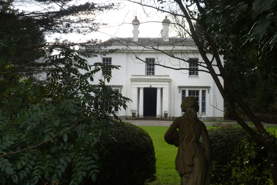 Porthycarne House, Usk, Monmouthshire, a Grade II* listed villa near to the River Usk, built circa 1834 for ironmaster's agent Thomas Reece